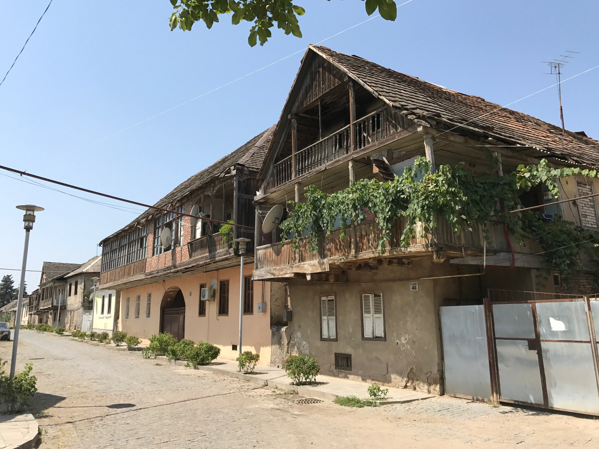 19th-century German houses in Bolnisi